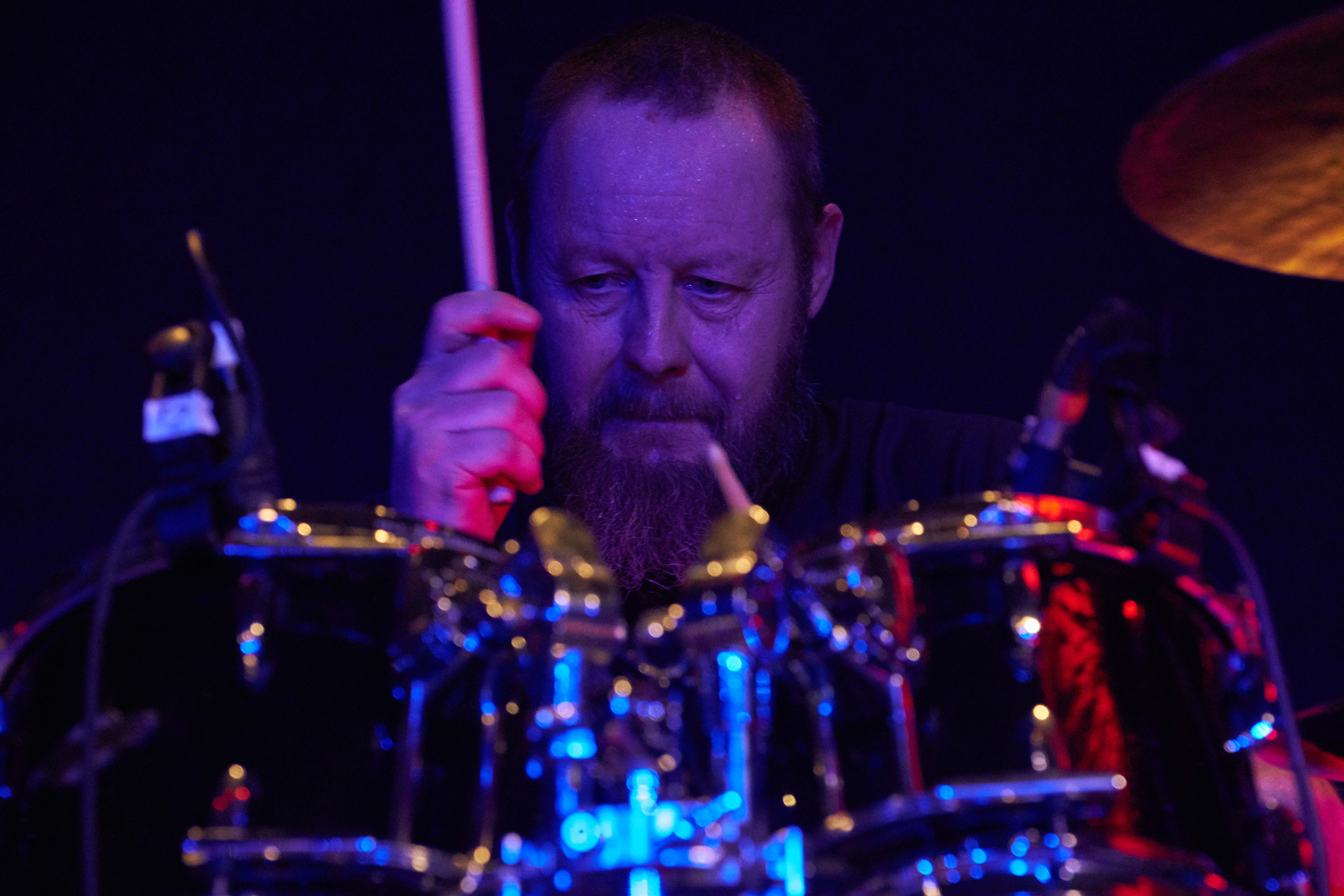 British band Candlemass at Hammer of Doom Festival, Würzburg, Posthalle, 21.11.2015 Festivalsommer This photo was created with the support of donations to Wikimedia Deutschland in the context of the CPB project "Festival Summer". Personality rights warning Although this work is freely licensed or in the public domain, the person(s) shown may have rights that legally restrict certain re-uses unless those depicted consent to such uses. In these cases, a model release or other evidence of consent could protect you from infringement claims.